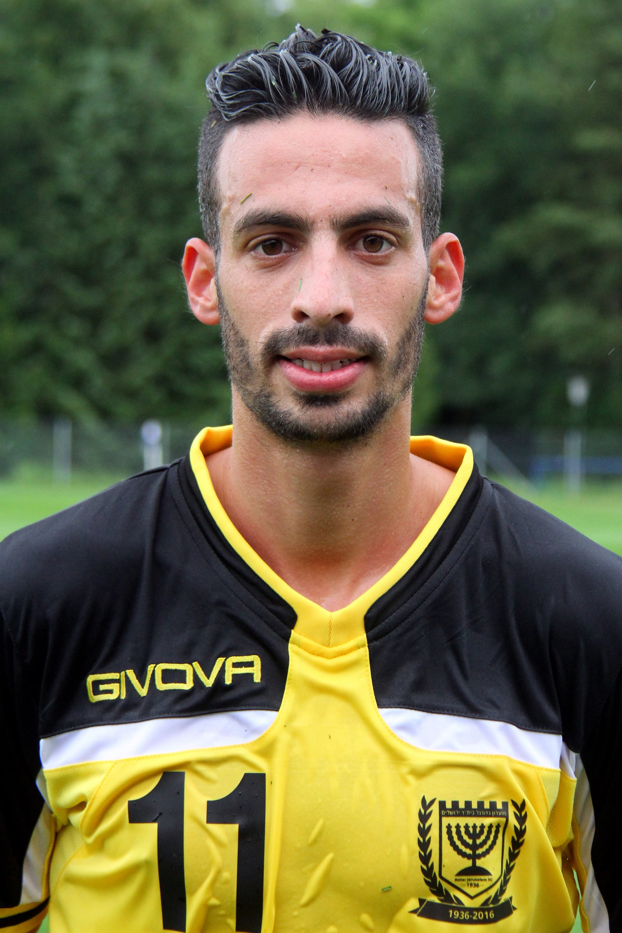 Friendly match between Beitar Jerusalem F.C. (yellow shirts) and MTK Budapest FC (blue shirts) at 2016-06-18 in Bad Erlach (Austria. – The photo shows Dan Einbinder, Beitar Jerusalem F.C.